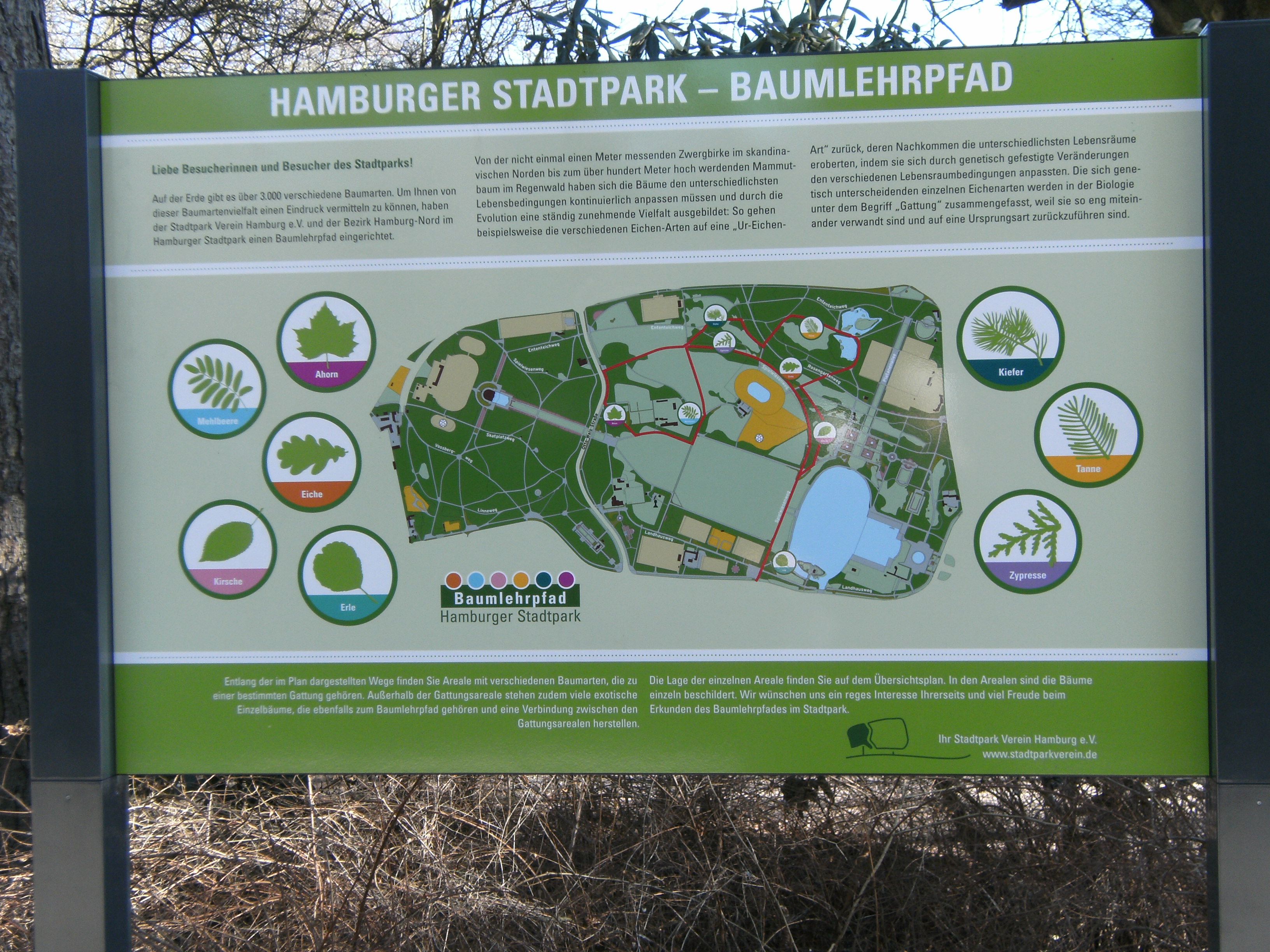 Hamburg Stadtpark (urban park), information board: informative path concerning trees. Begin at Spielwiesenweg (Südring opposite the Wiesenstieg).